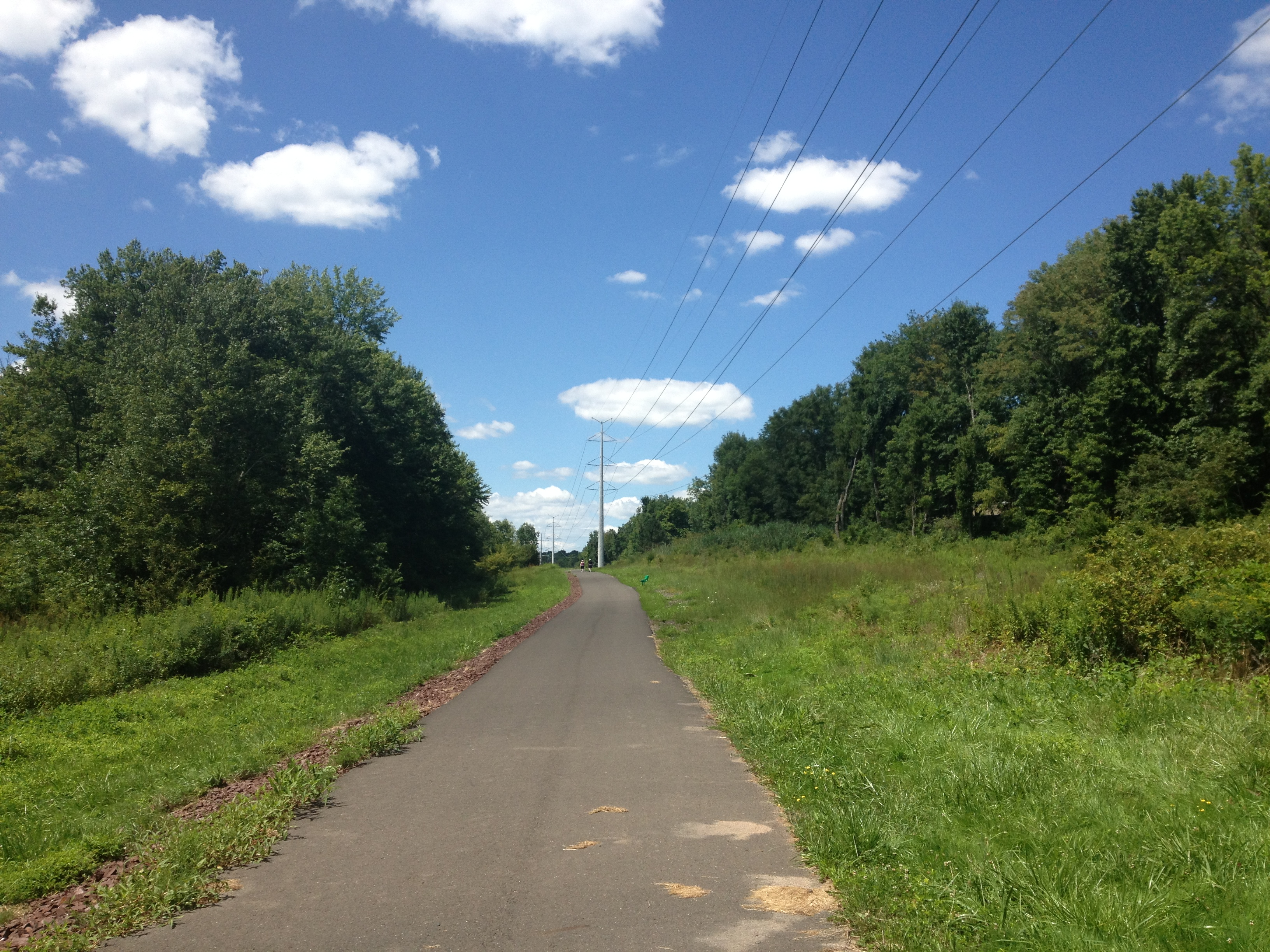 The Power Line Trail west of Pennsylvania Route 152 (Limekiln Pike) in Horsham Township, Pennsylvania.